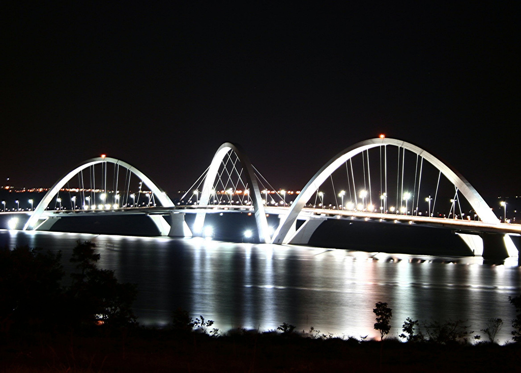 JK Bridge at night, Brasília, Brazil.